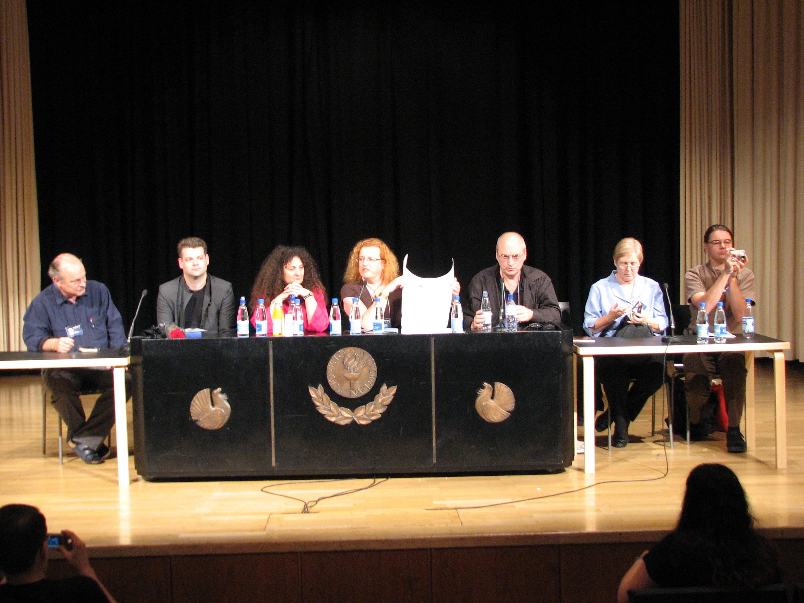 The Finncon 2007 Guests of Honour panel at the end of the convention. Joe Haldeman, Jonathan Clemens, Ellen Datlow, Cheryl Morgan, John Clute, Gay Haldeman, Ben Roimola.